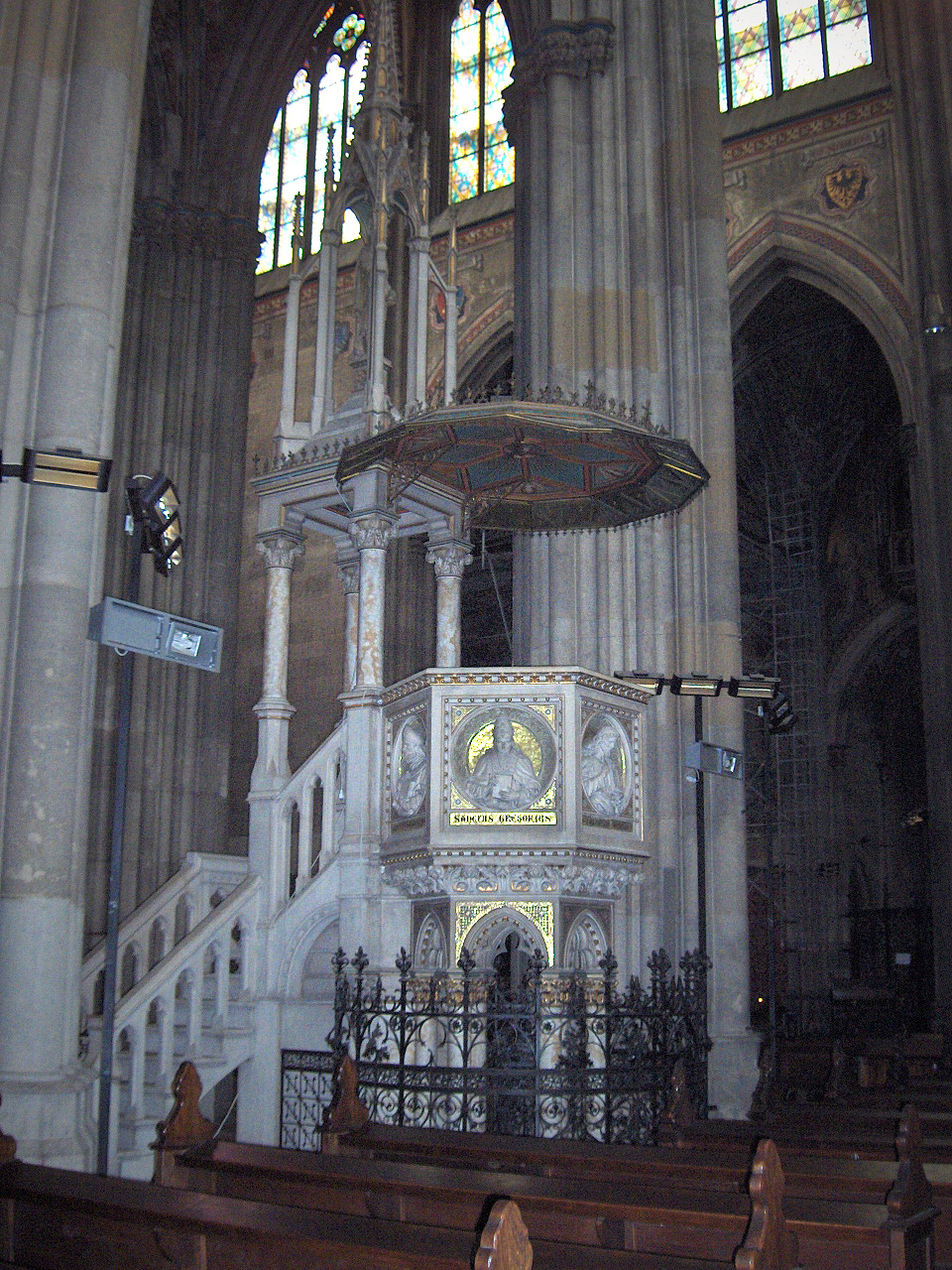 Pulpit of the Votivkirche, Vienna, Austria